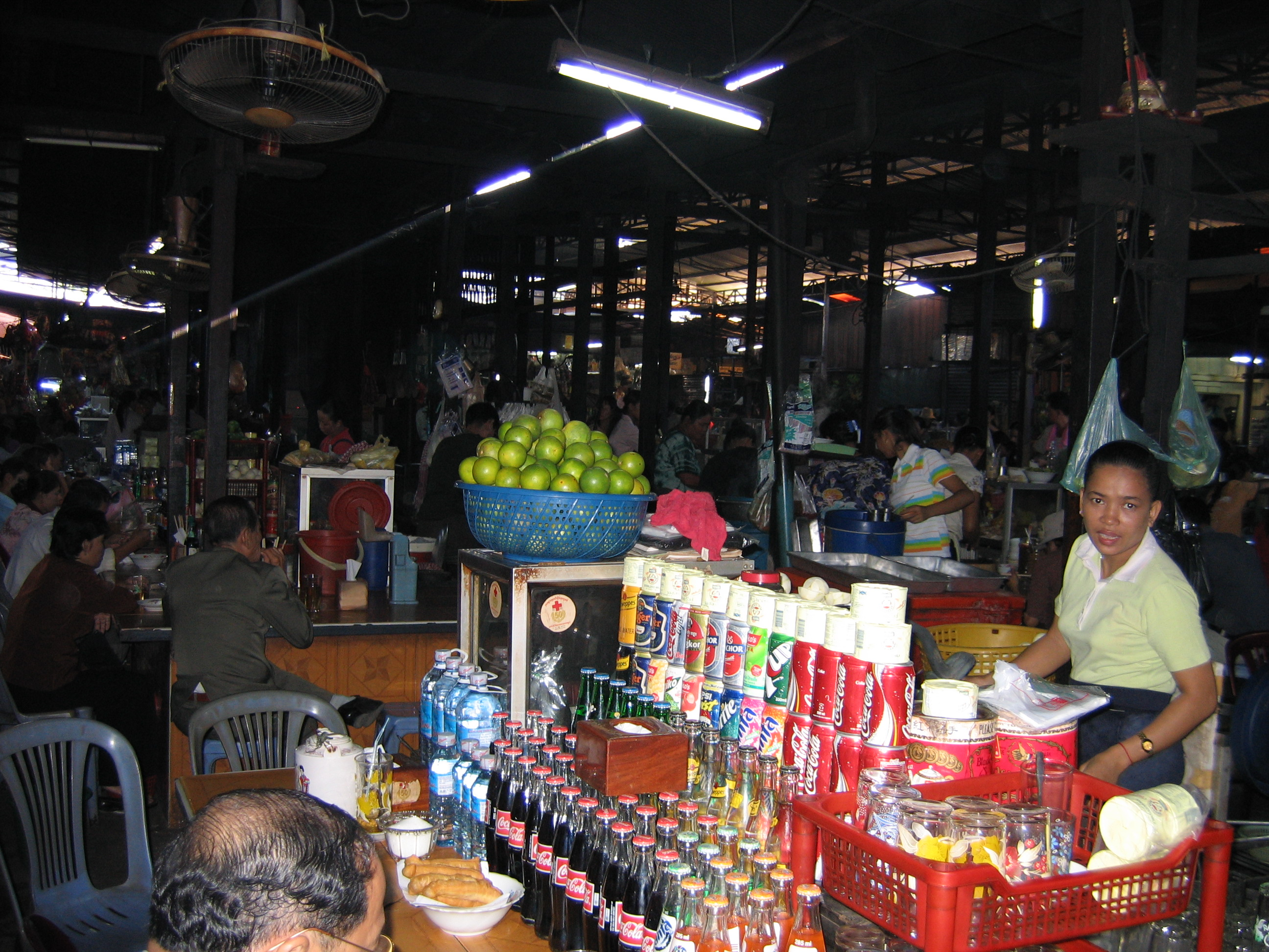 Inside the market